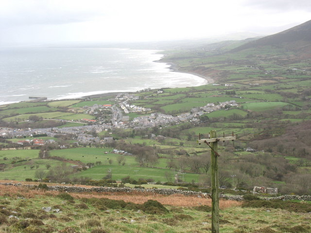 Pentref Trefor. The village of Trefor Some people mistakenly believe that the name Trefor (tre-for = sea town) arose from the settlement's location near the coast. This is not true. The village was actually named after Trefor Jones, a 19thC manager at Yr Eifl Granite Quarry. Trefor is a village with an unique character.